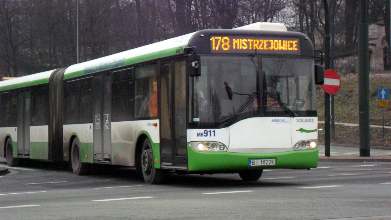 Solaris Urbino 18 Mk2 bus (#MR911, reg. BI 1822K, built 2004) in Kraków, Poland. KPKM Białystok operator, bus rent to Mobilis Kraków.